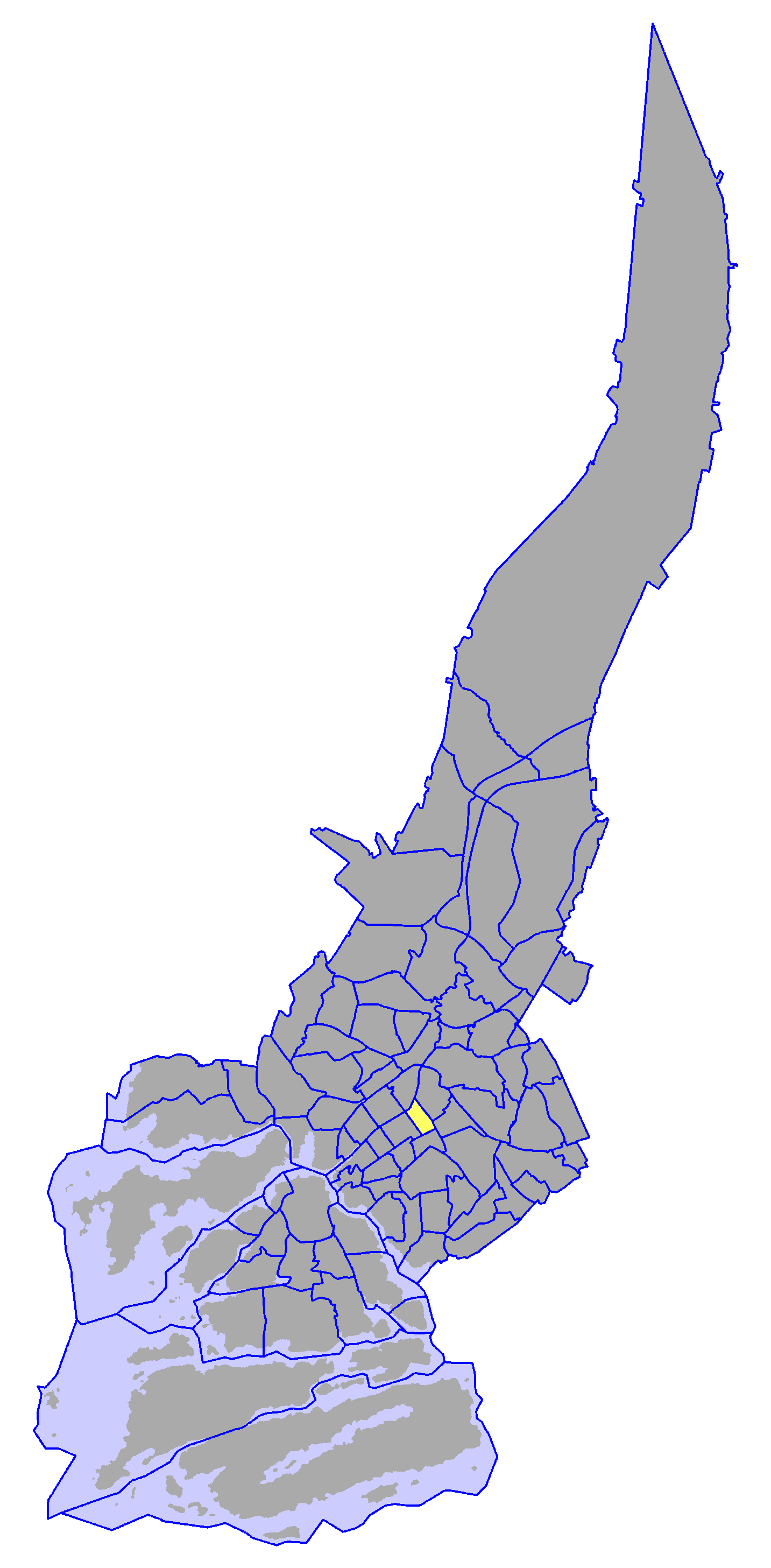 District number II, in Turku